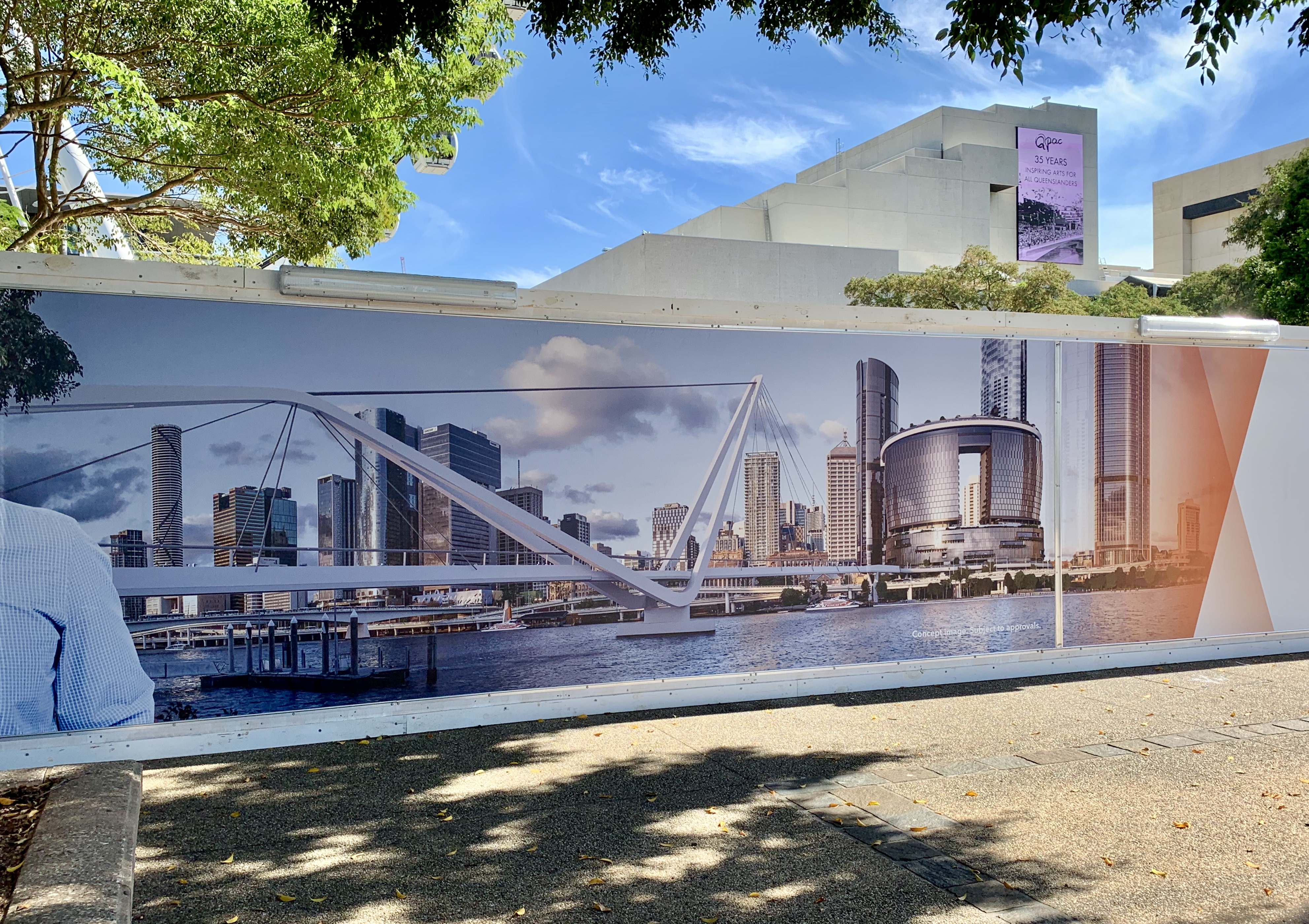 Queen’s Wharf, Brisbane under construction in April 2020